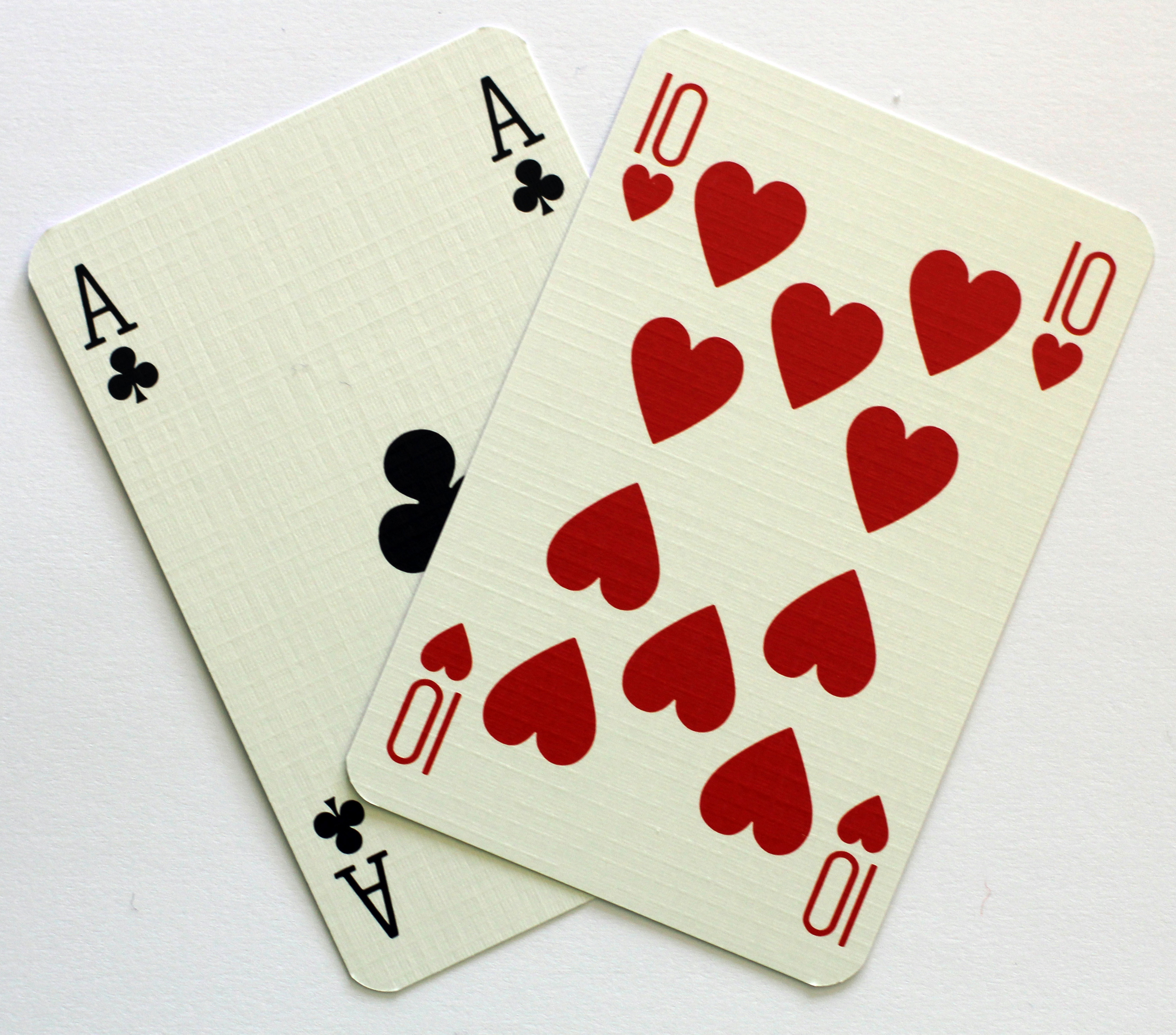 The Ace of Clubs and Ten of Hearts are one example of a 'pontoon' in the English game of the same name. From a standard French-suited, English pattern pack.